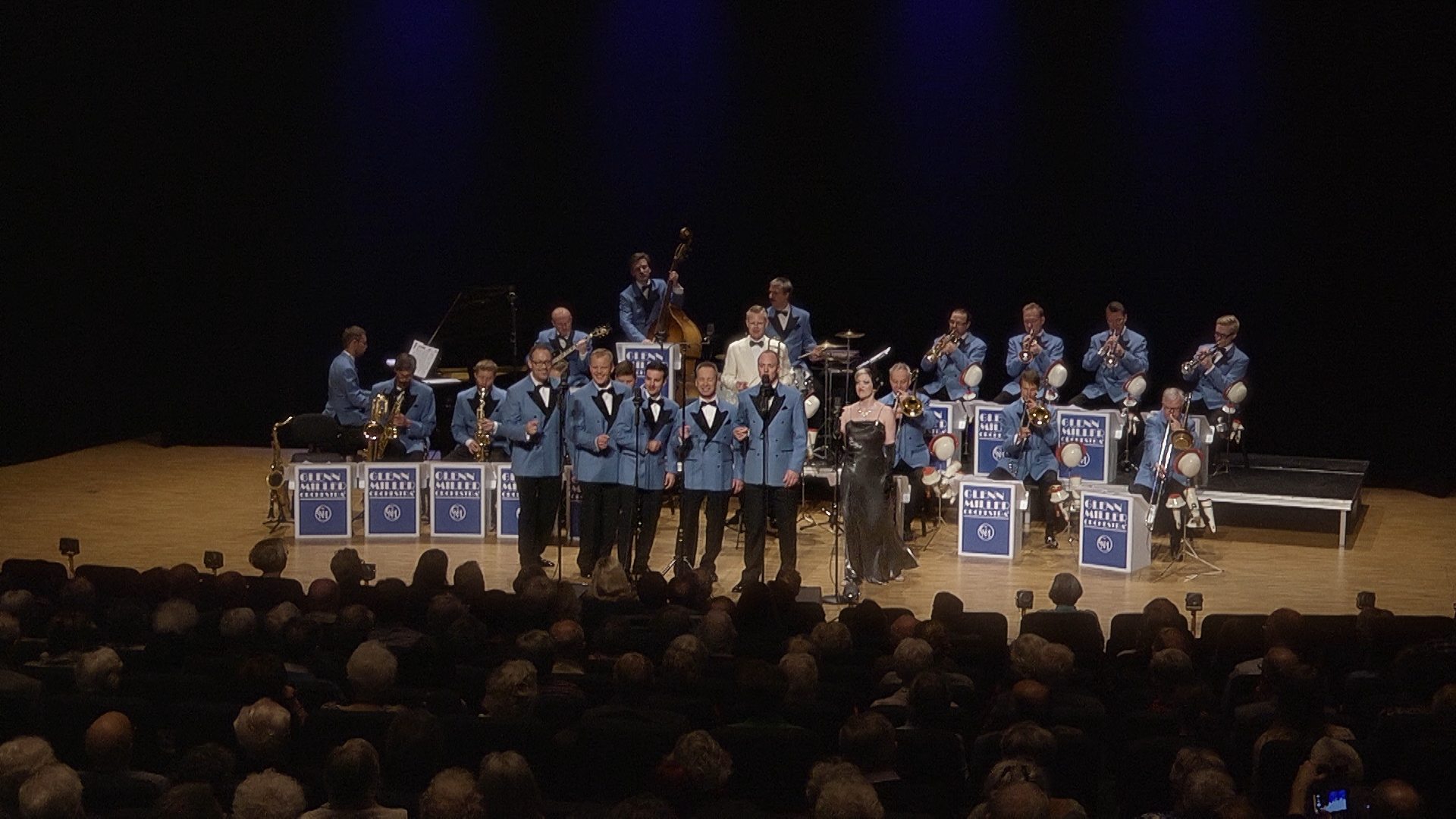 Glenn Miller Orchestra, Scandinavia